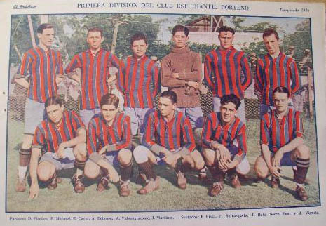 Argentine Club Estudiantil Porteño football team of 1926 that took part at the Primera División championship.